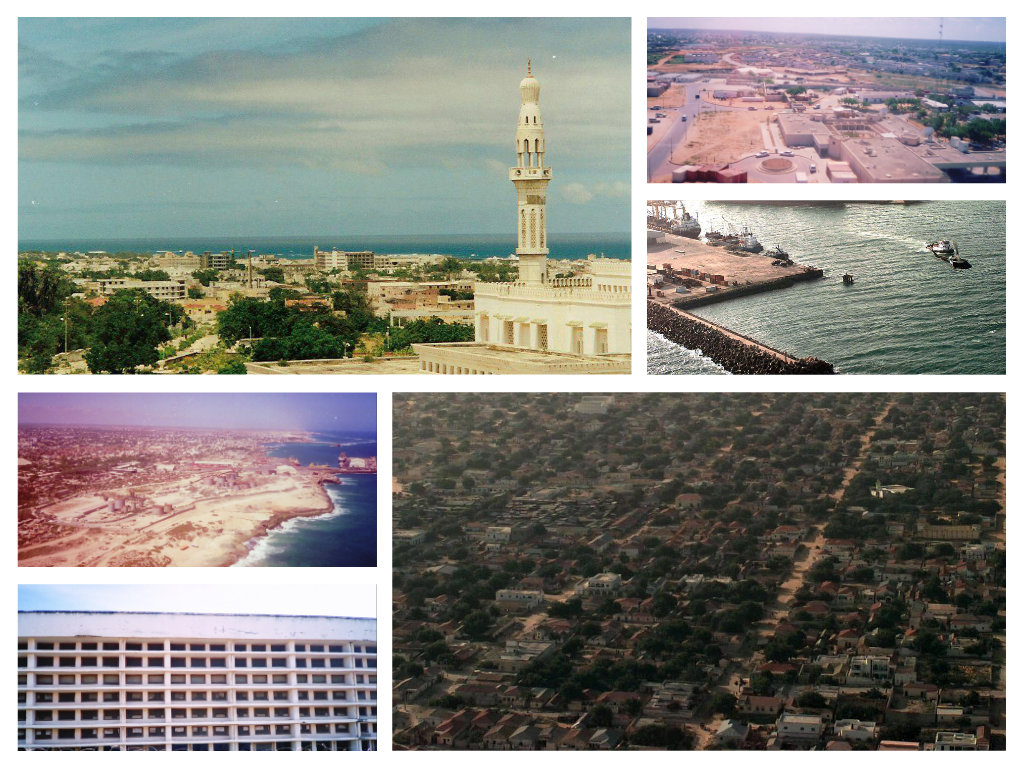 Montage of places in Mogadishu, Somalia.